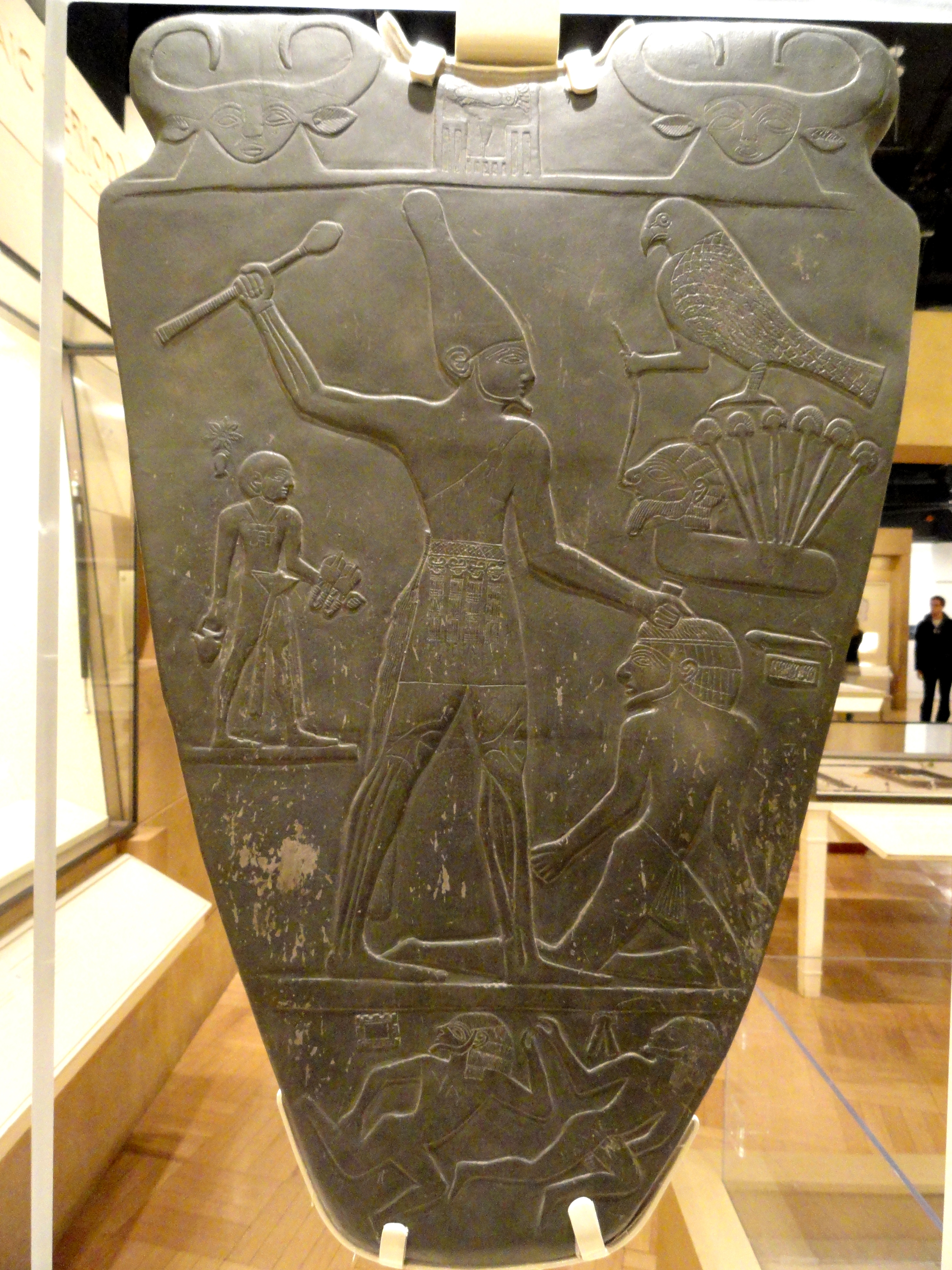 Exhibit in the Royal Ontario Museum, Toronto, Ontario, Canada. This exhibit is old enough so that it is in the public domain, and photography was permitted in the museum. I took this photograph and release it into the public domain.